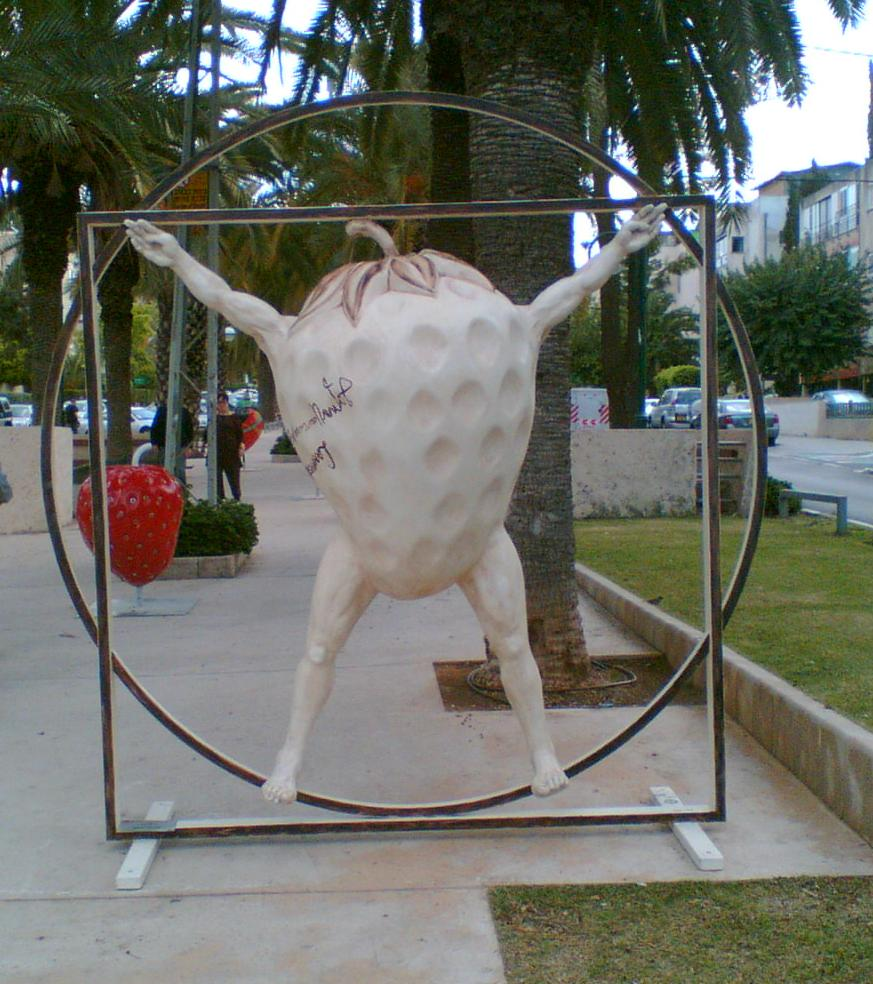 "Leonardo da Toot", sculpture by Oded Kahila, "Strawberries at Ramat Hasharon" exhibition